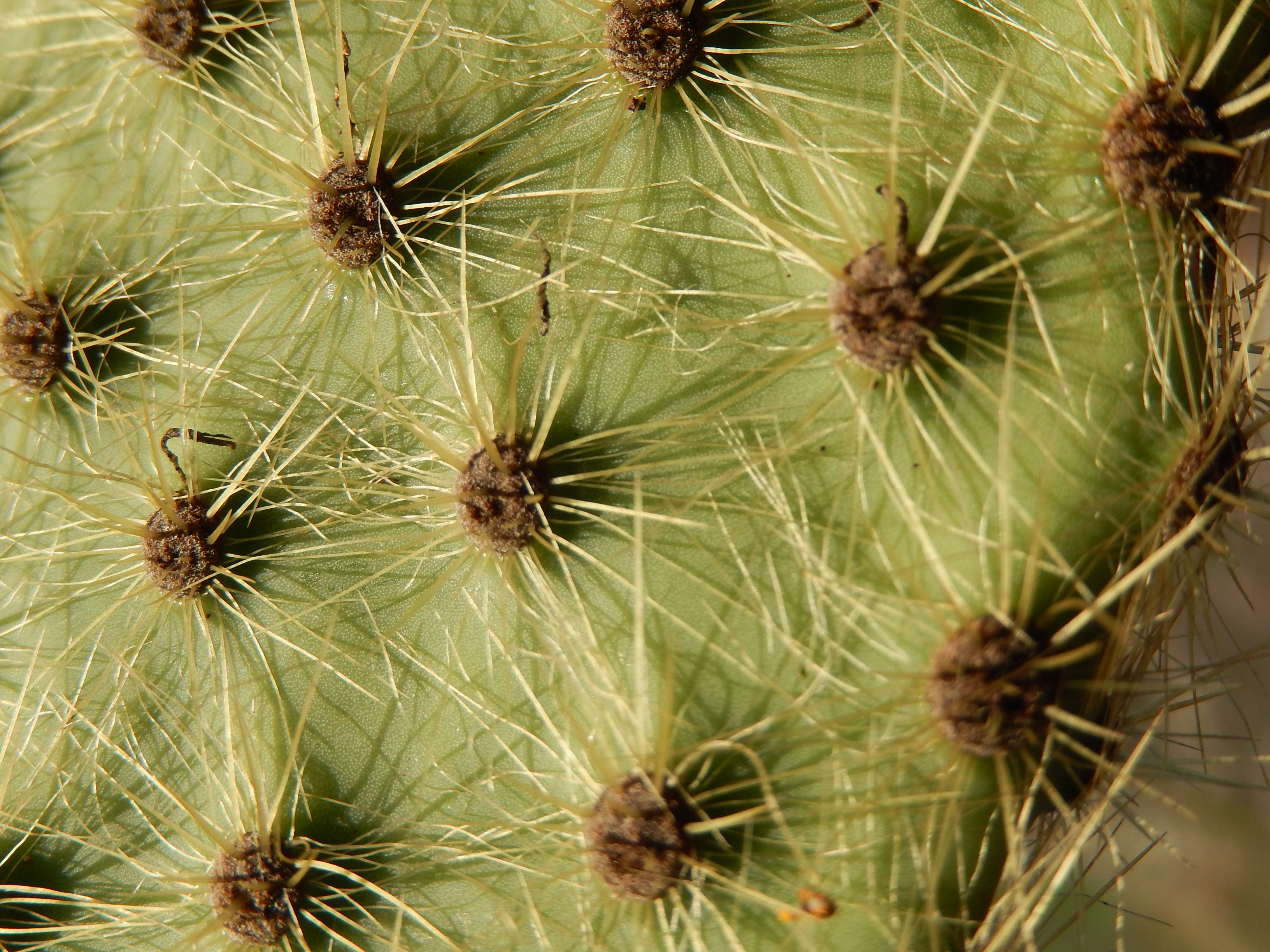 Opuntia scheeri F.A.C. Weber - determined with the help of Marco Alberti - detail of areoles